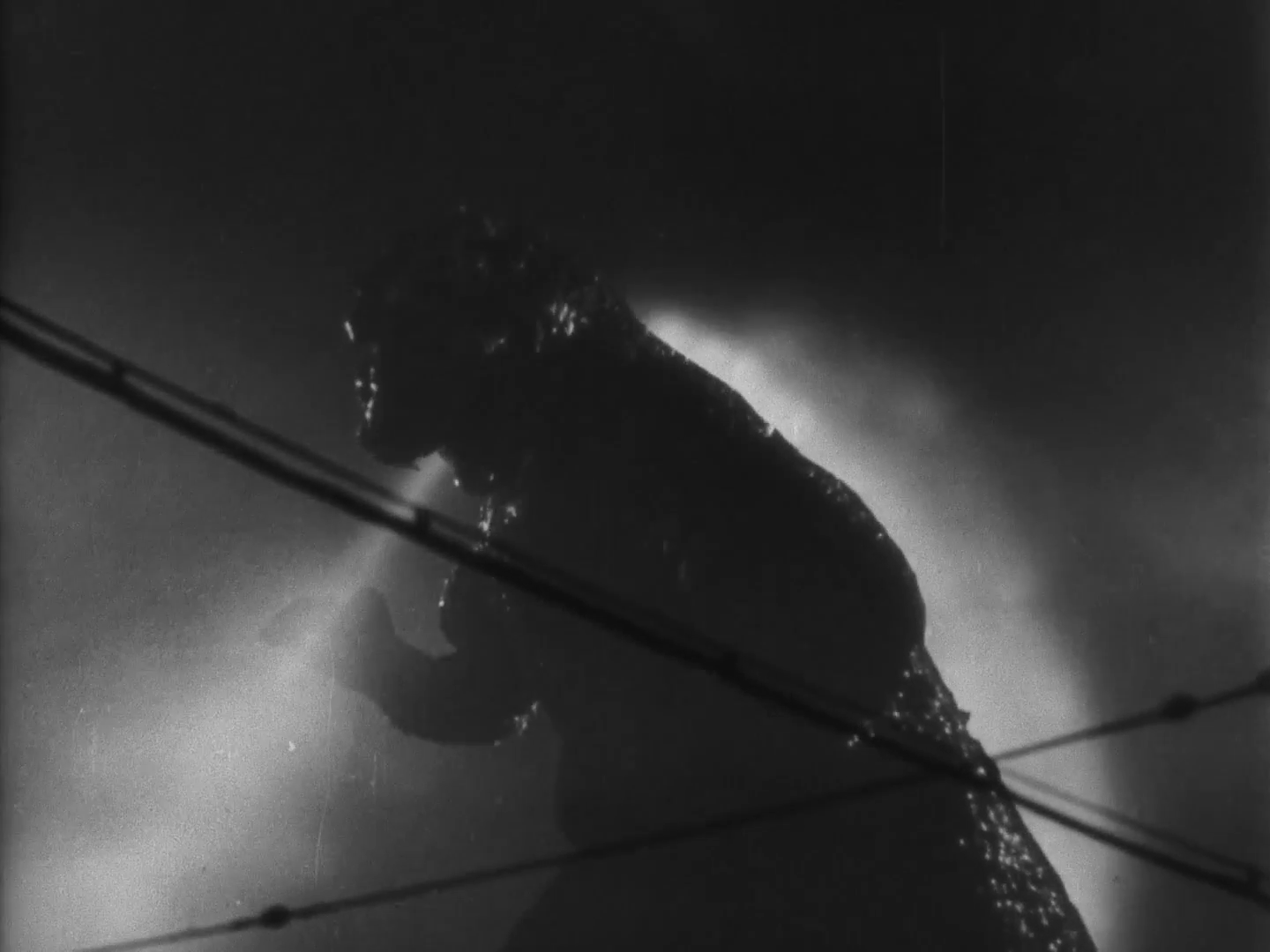 Scene from Godzilla: King of the Monsters.